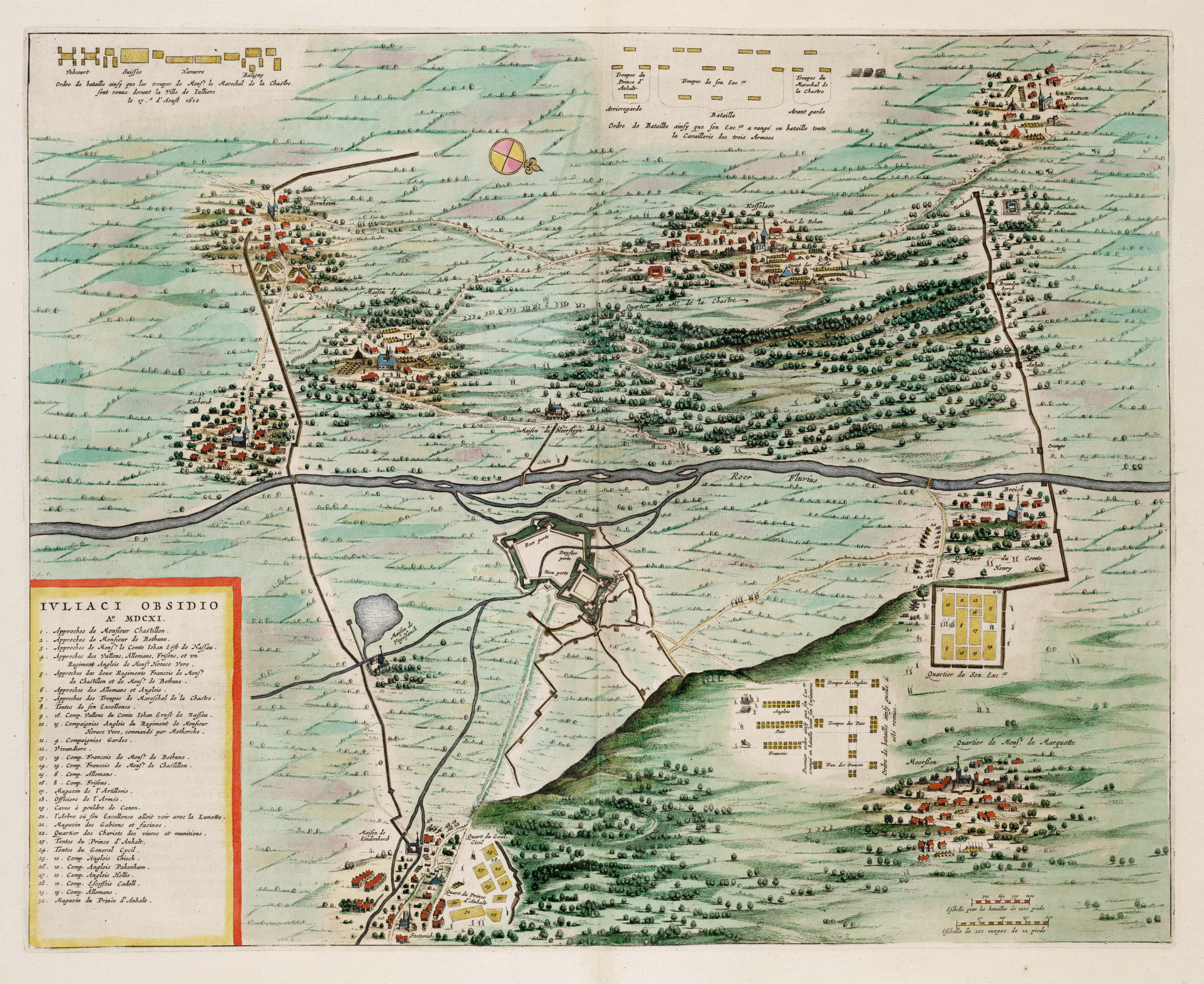 Siege and capture of Julich by Maurice of Orange in 1610, during the war between Julich and Kleef